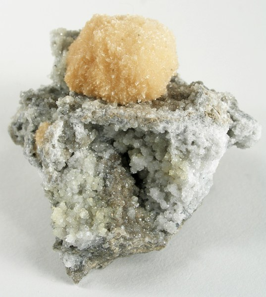 Strontianite, Calcite, Fluorite Locality: National Limestone County Quarry, Lime Ridge, Mount Pleasant Mills, Perry Township, Snyder County, Pennsylvania, USA (Locality at ) Size: 4.7 x 4.5 x 2.5 cm. An interesting looking specimen of a 2.0 cm, radial aggregate of translucent, cream-colored strontianite perched atop a box-work limestone matrix covered with calcite and colorless fluorite microcrystals. The fluorite fluoresces purple and the strontianite has light-yellow fluorescence.